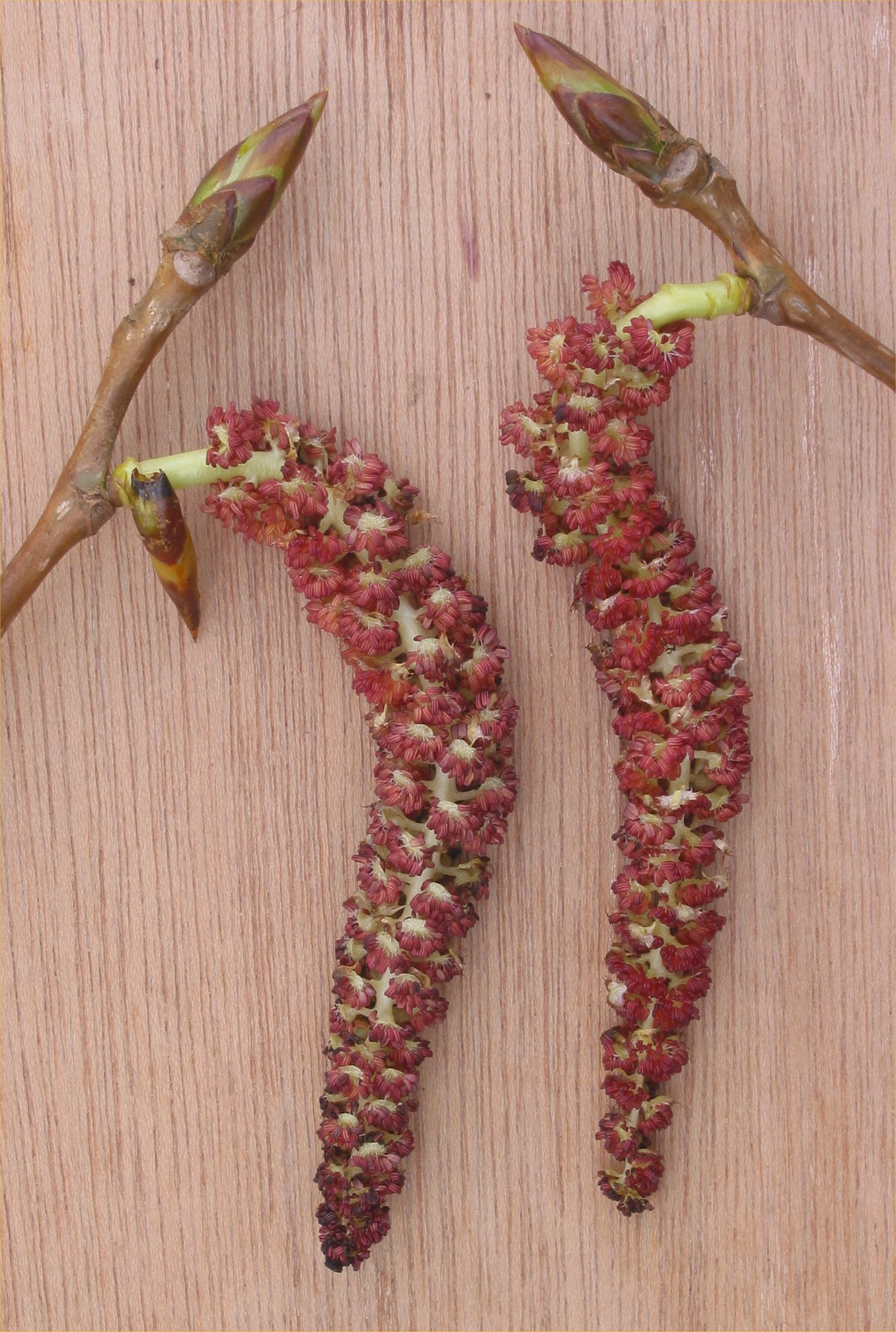 Populus x canadensis male inflorescences